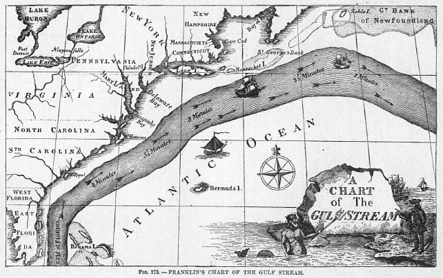 Franklin's chart of the Gulf Stream